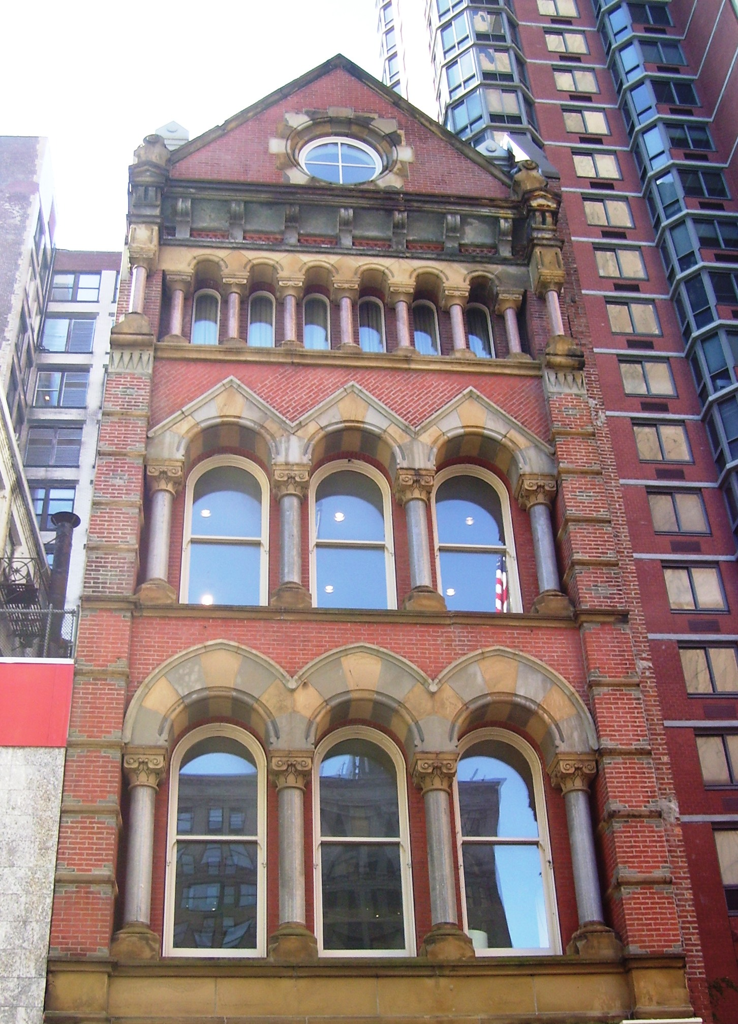 The David S. Brown Store at 8 Thomas Street between Broadway and Church Street in the Tribeca neighborhood of Manhattan, New York City was built in 1875-76 and was designed by J. Morgan Slade in the Victorian Gothic style, as influenced by John Ruskin and French architectural theory. The company was a manufacturer of soaps. The building was designated a NYC landmark in 1978. (Source: Guide to NYC Landmarks (4th ed.))